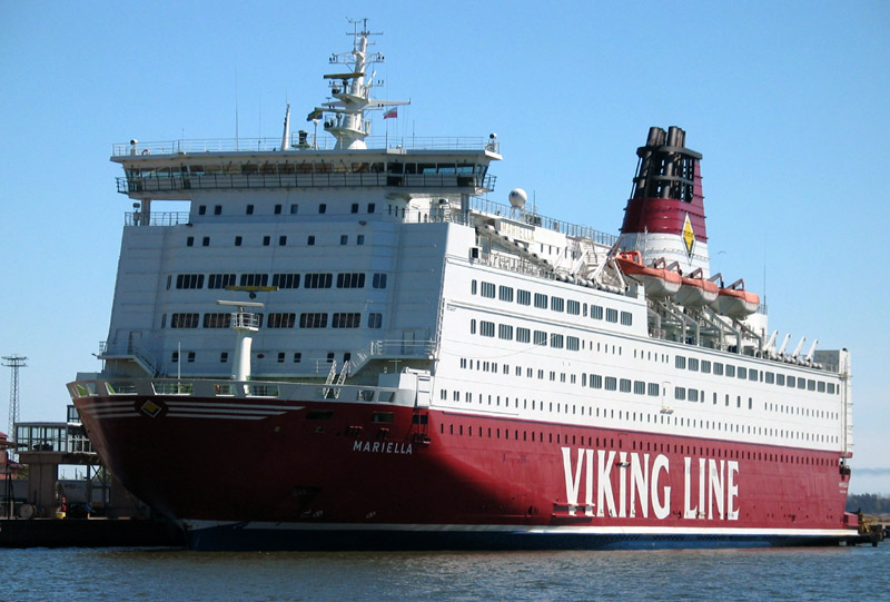 Ferry M/S Mariella in Helsinki, Finland.